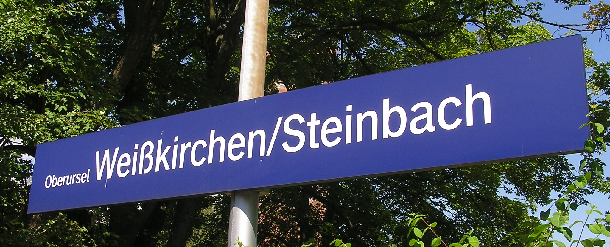 Sign of the station Oberursel-Weißkirchen/Steinbach